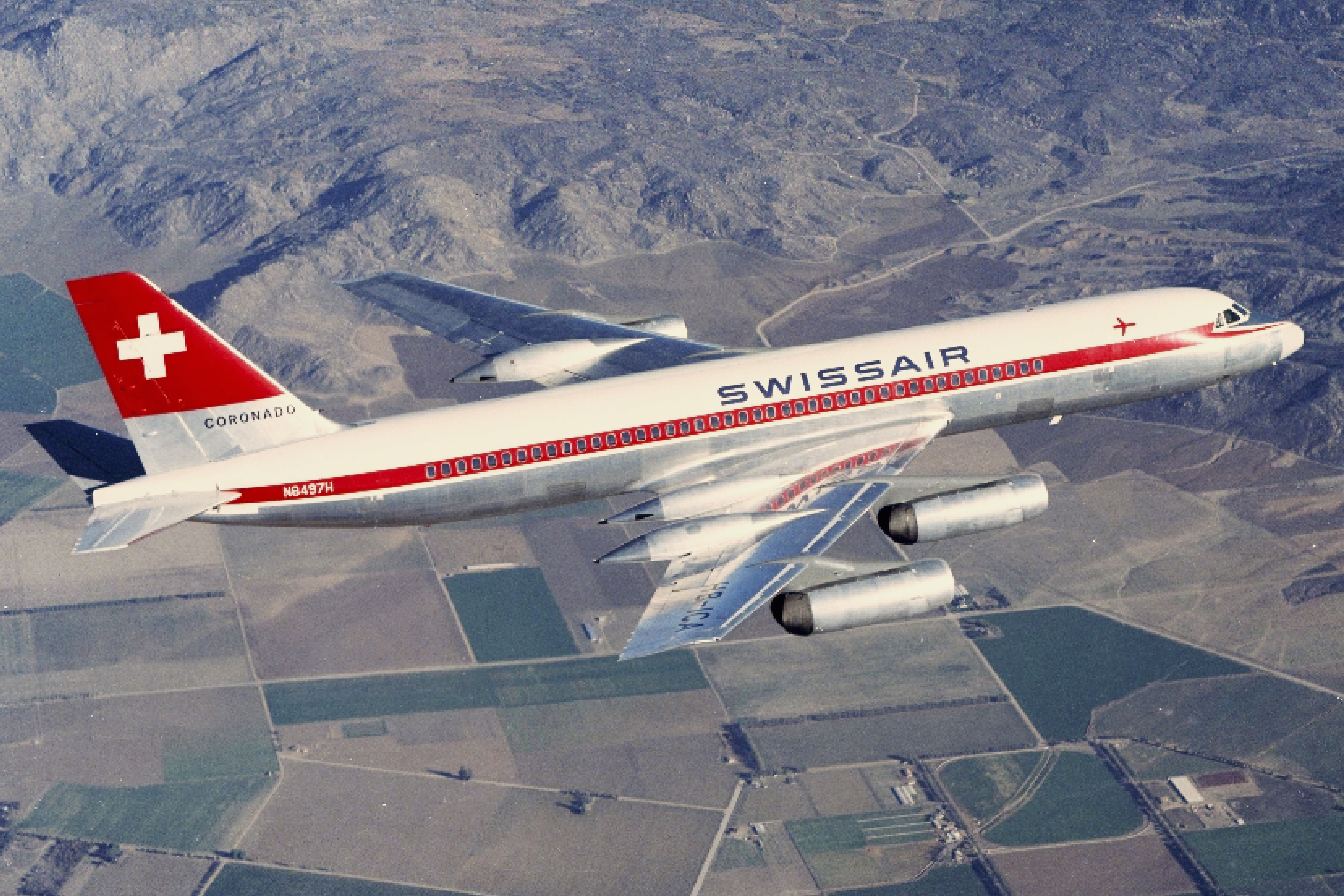 Image donated to SDASM from Convair/General Dynamics-- ---Please Tag these images so that the information can be permanently stored with the digital file.---Repository: San Diego Air and Space Museum